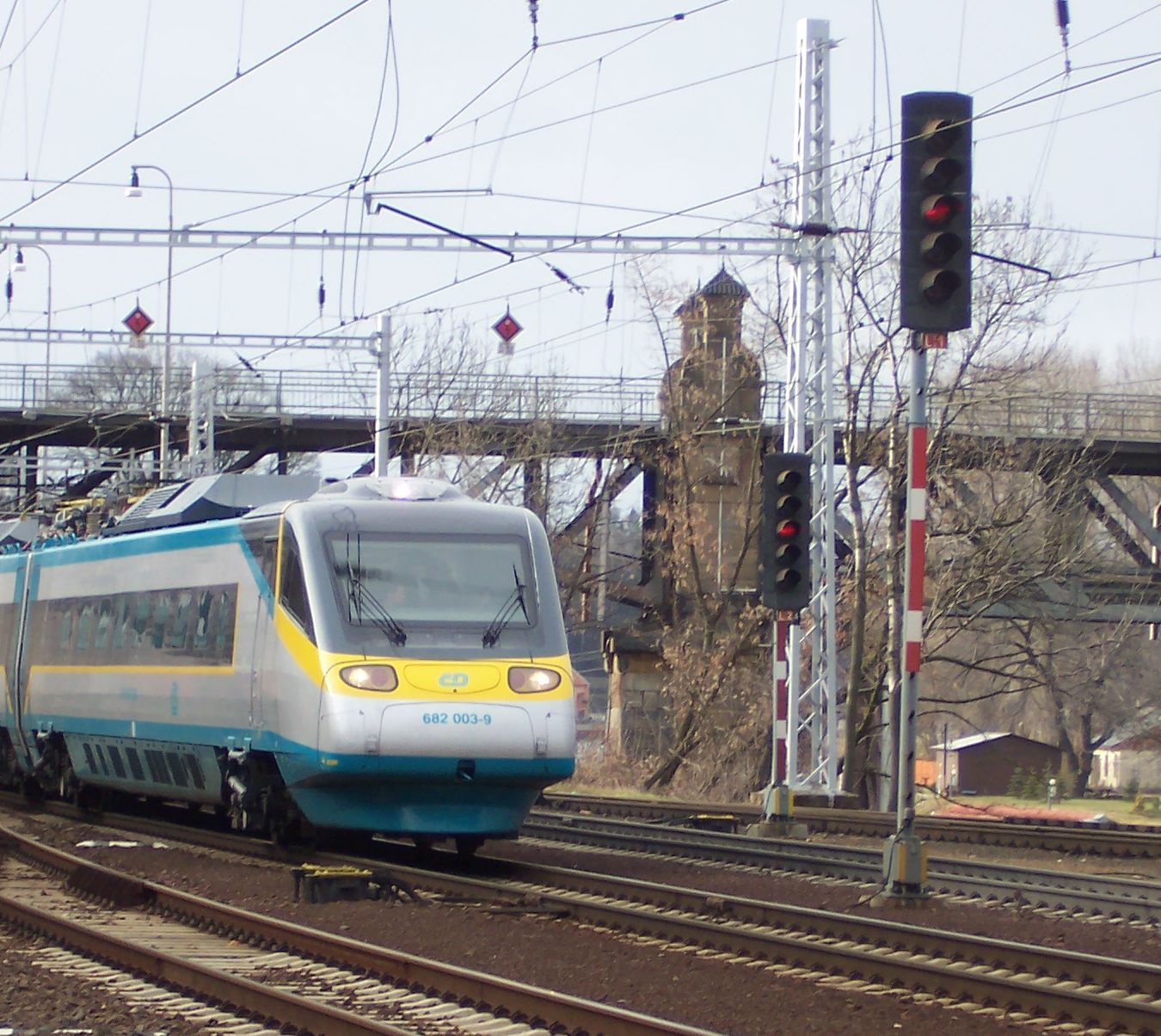 Fast train unit Pendolino arriving to Roudnice nad Labem in north-western Bohemia.